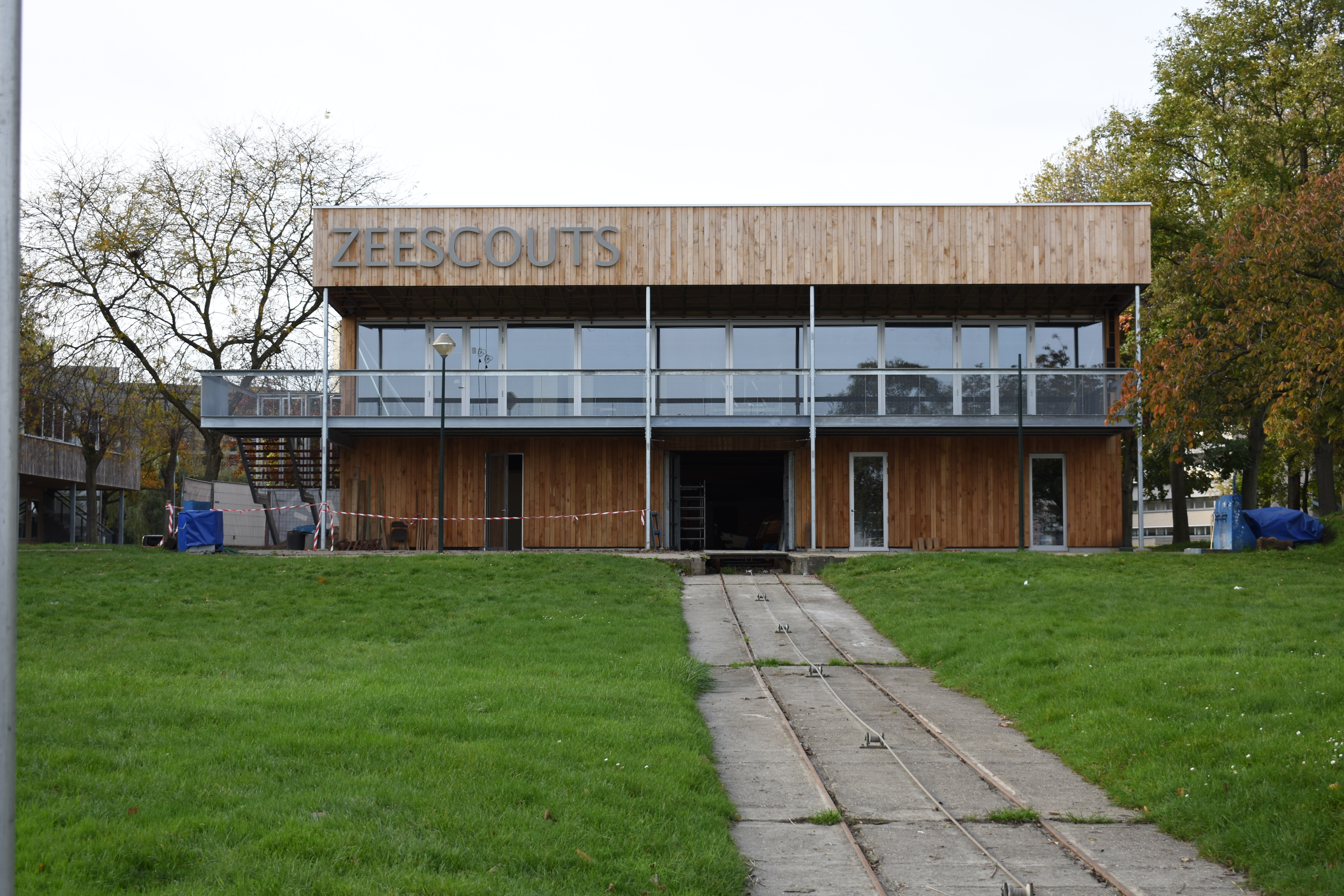 Sea scouts Antwerp. New club building.